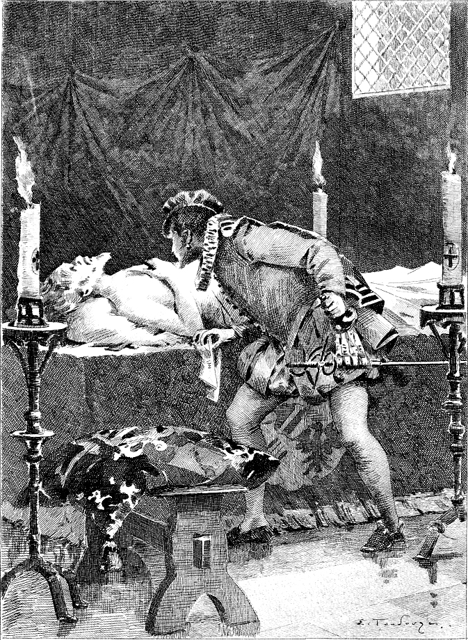 Illustration of Honoré de Balzac's The Elixir of Long Life (1831).